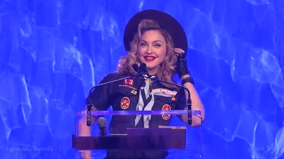 Madonna's speech at GLAAD Media Awards in 2013